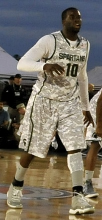 Draymond Green of Michigan State. Green wore number 10 in the Carrier Classic basketball game in honor of his teammate Delvon Roe, who was unable to play his senior season due to injury. Green normally wears number 23. This file has been extracted from another file: US Navy 111111-N-OK922-278 University of North Carolina center Tyler Zeller (^44) recovers a rebound during the Quicken Loans Carrier Classic baske.jpg